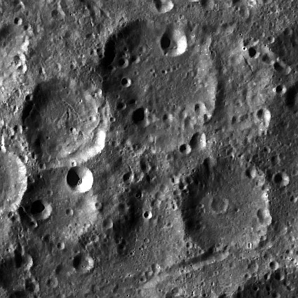 Lampland at upper center, satellite R at left and K at lower right. Note the deep gash at bottom image.